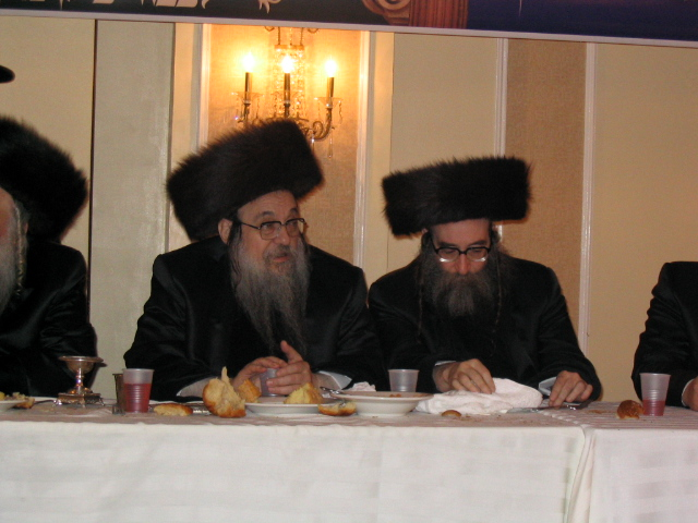 Rabbi Berish Horowitz, Spinka Rebbe of Williamsburg, congregation Beth Samuel Tzvi, and Rabbi Isaac Horowitz, Spinka Rebbe of Williamsburg, congregation Todeloth Tzvi.